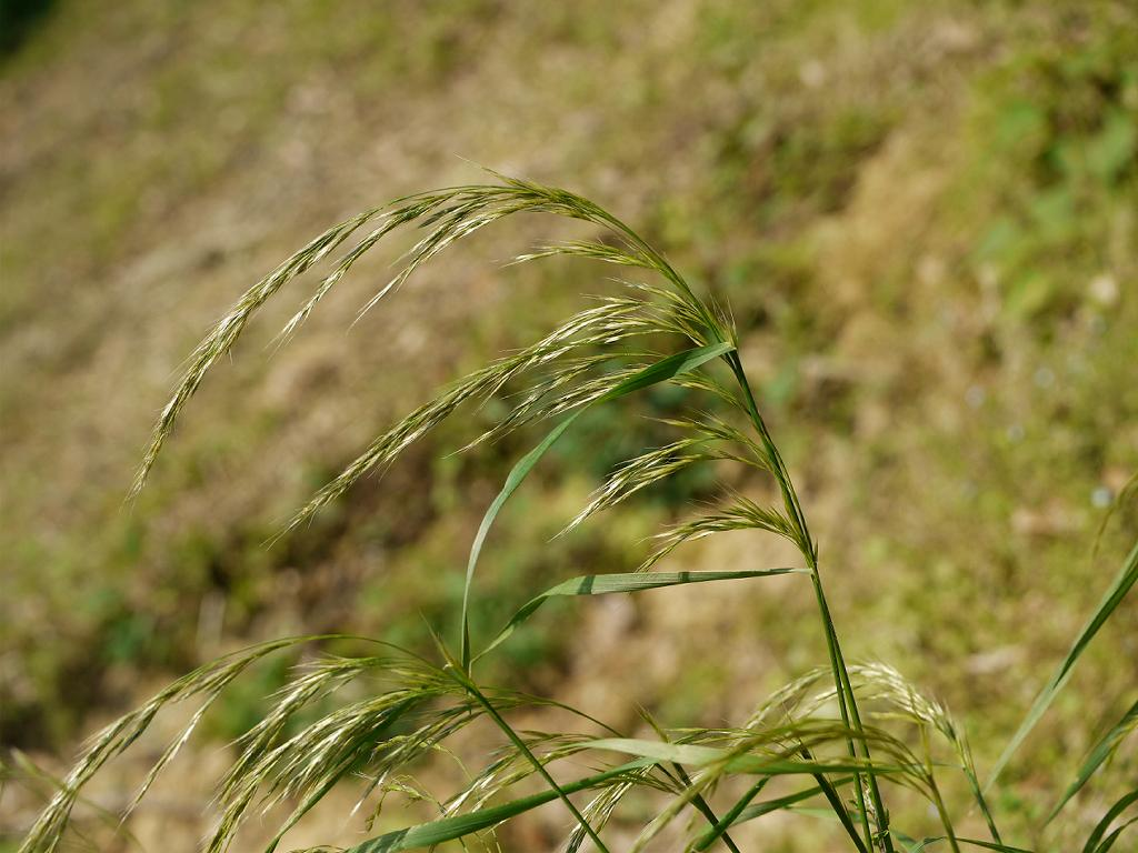 Trisetum bifidum(Poacae)